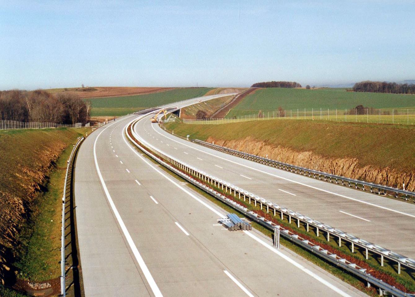 Bundesautobahn 17: View on the building site near Göppersdorf. The picture was taken on week before the opening of the autobahn-section between Pirna and Ústí nad Labem.